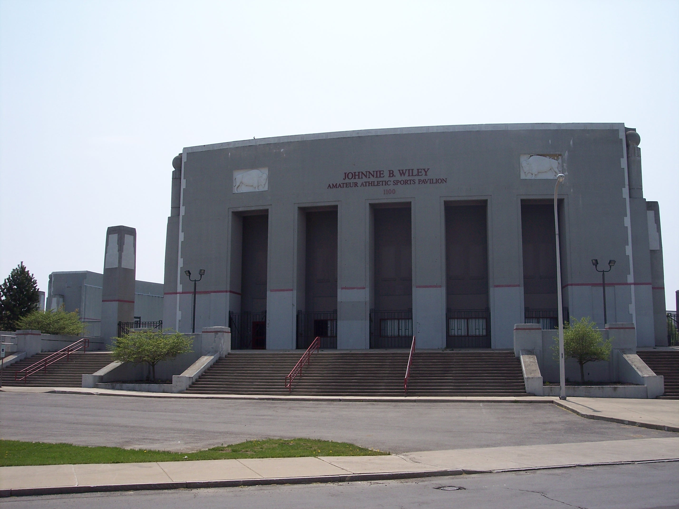 War Memorial Stadium also known as "The Rockpile", 285 Dodge street, Buffalo NY